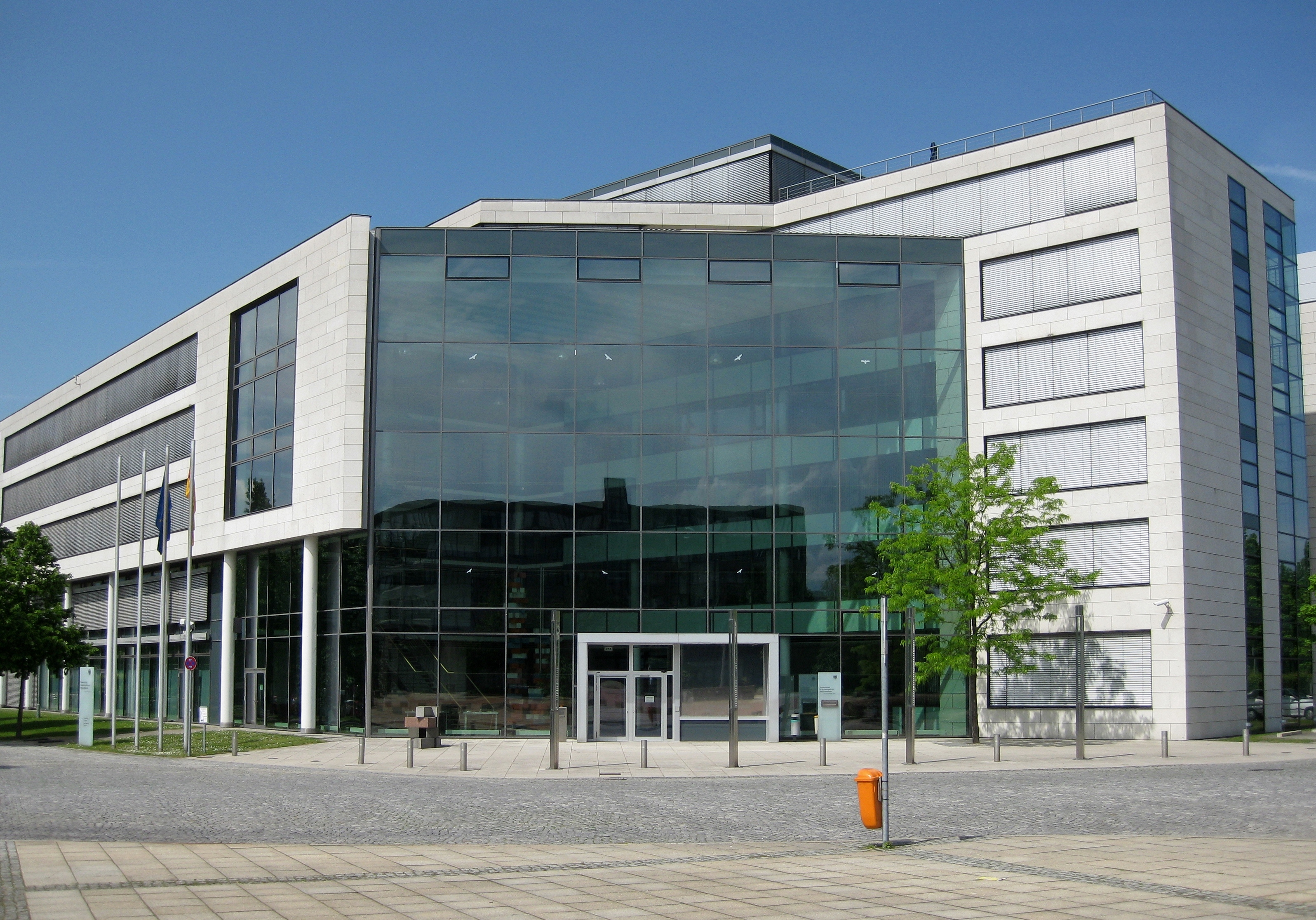 The Bundesinstitut für Arzneimittel und Medizinprodukte in Bonn, Germany; main entrance, seen from Robert-Schuman-Platz.